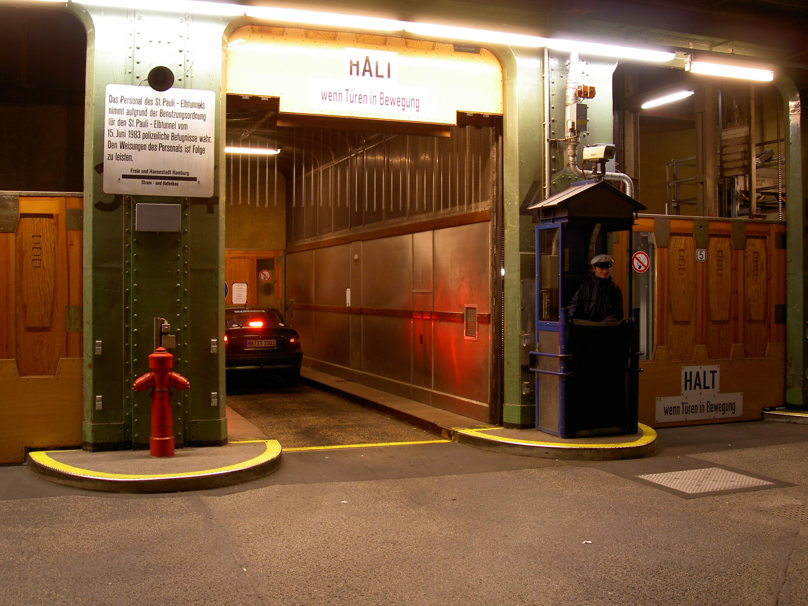 Germany Hamburg Harbour Tunnel Elbe Alter ElbtunnelThis is a photograph of an architectural monument.